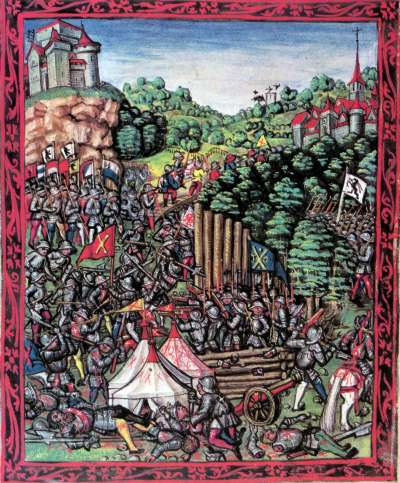 The Battle of Frastanz, 20. April 1499 near Feldkirch. The town and casle Schattenburg are depicted in the background. In front the battle between Swiss, Grisons and the Swabian Ligue is ongoing, the Grisons coming out of the forest on the right, the rest of the Swiss advancing from the left. In the foreground the camp of the Swabian Ligue, protected by a wooden palisade has just been attacked by Heini Wollebs troup. He is dead already, recognisable by the yellow and black trousers, lying on the left side of the foreground.